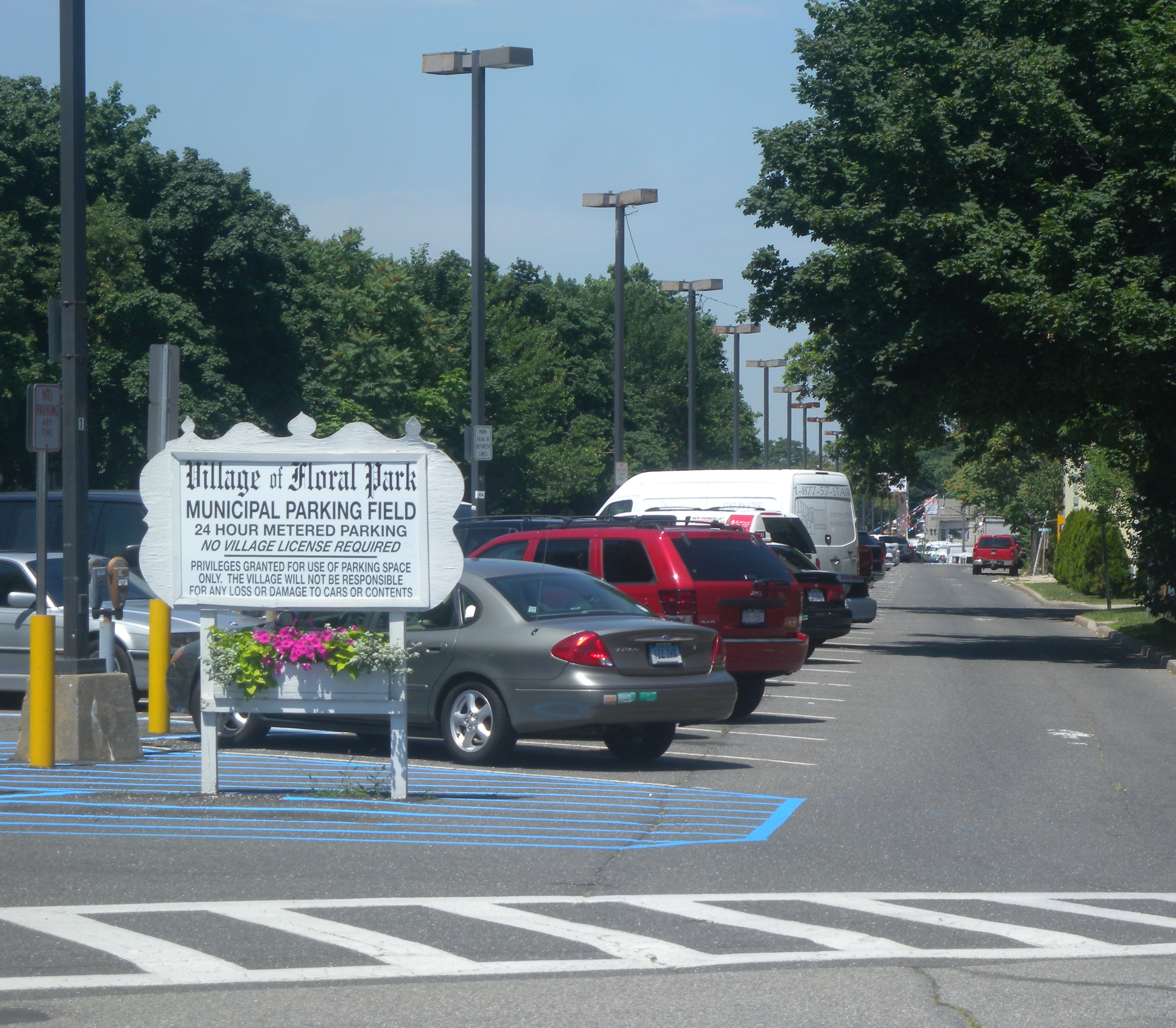 Looking northwest along Floral Park Municipal Parking Field, formerly the Stewart Line, on a sunny midday.